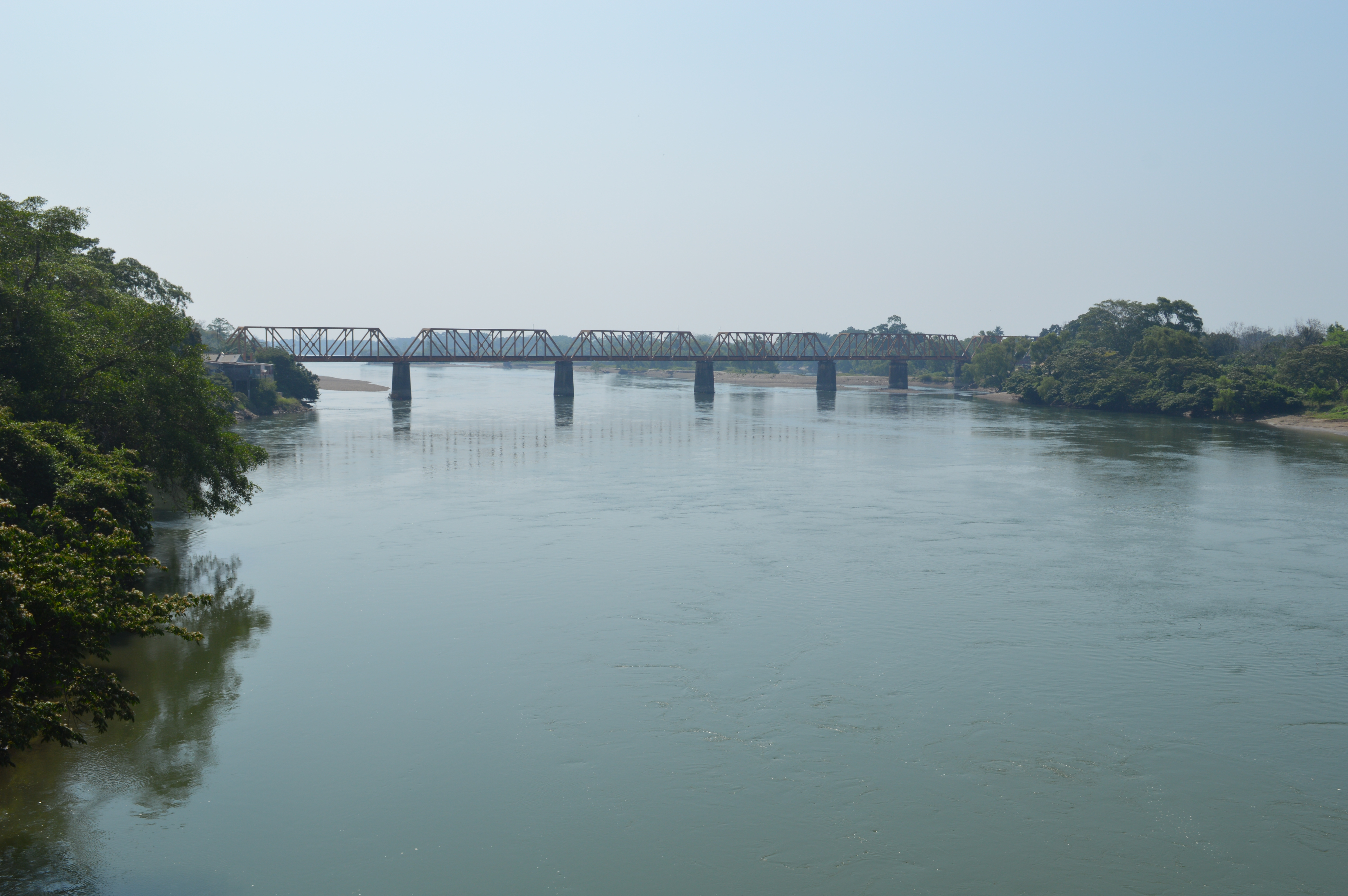 Papaloapan Bridge on the Veracruz Oaxaca border near the 145 and 175 exchange